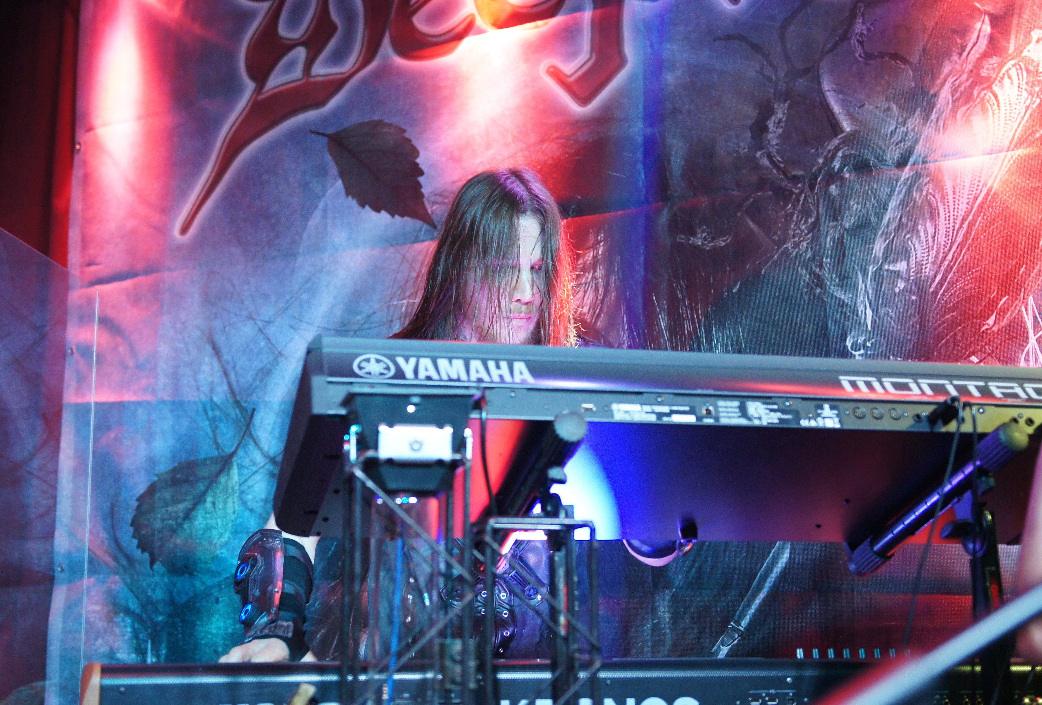 Deep Sun Tom Hiebaum, Keyboard, live at ACP-Club, 2019